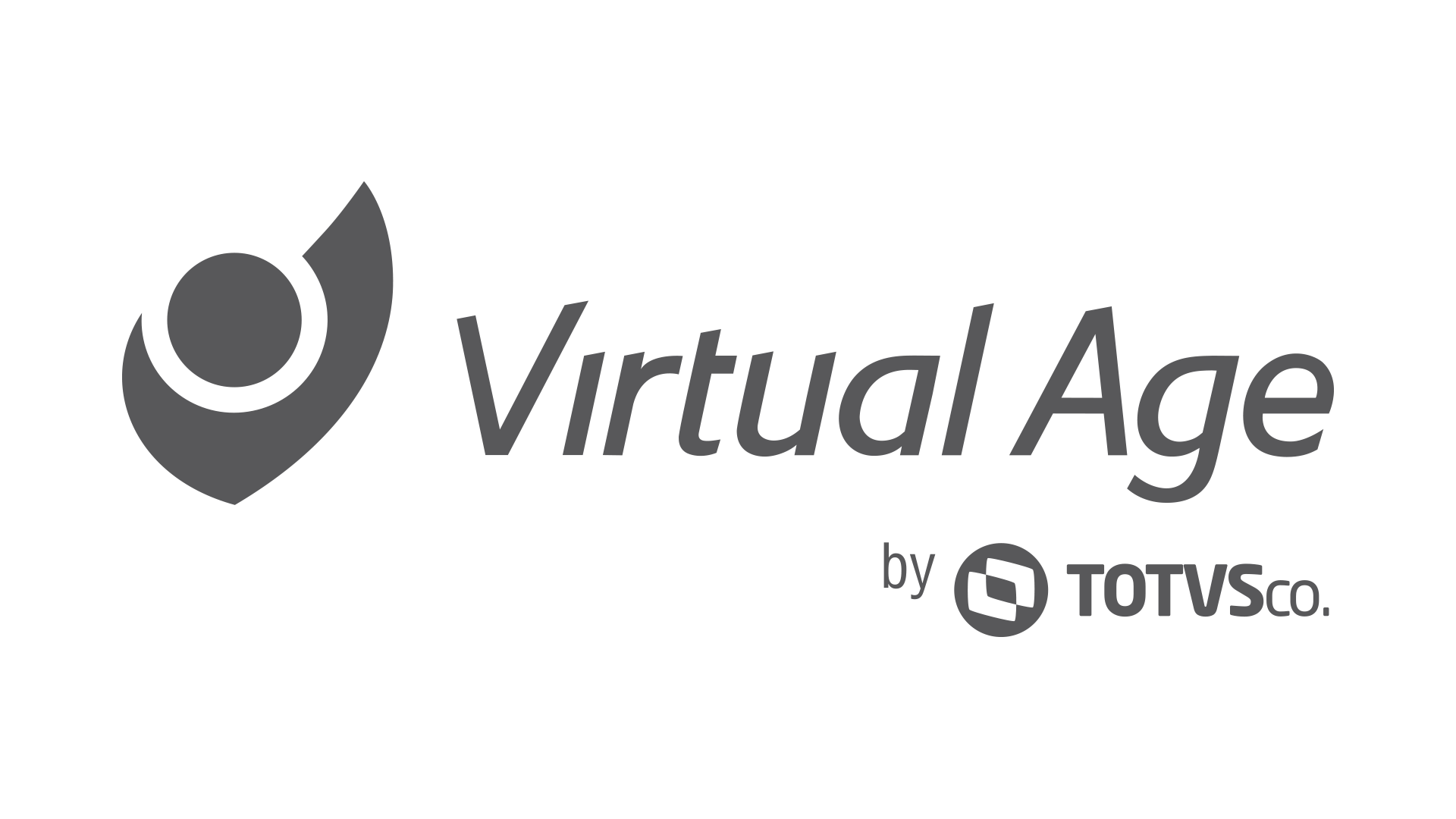 The official logo ot the Brazillian company Virtual Age